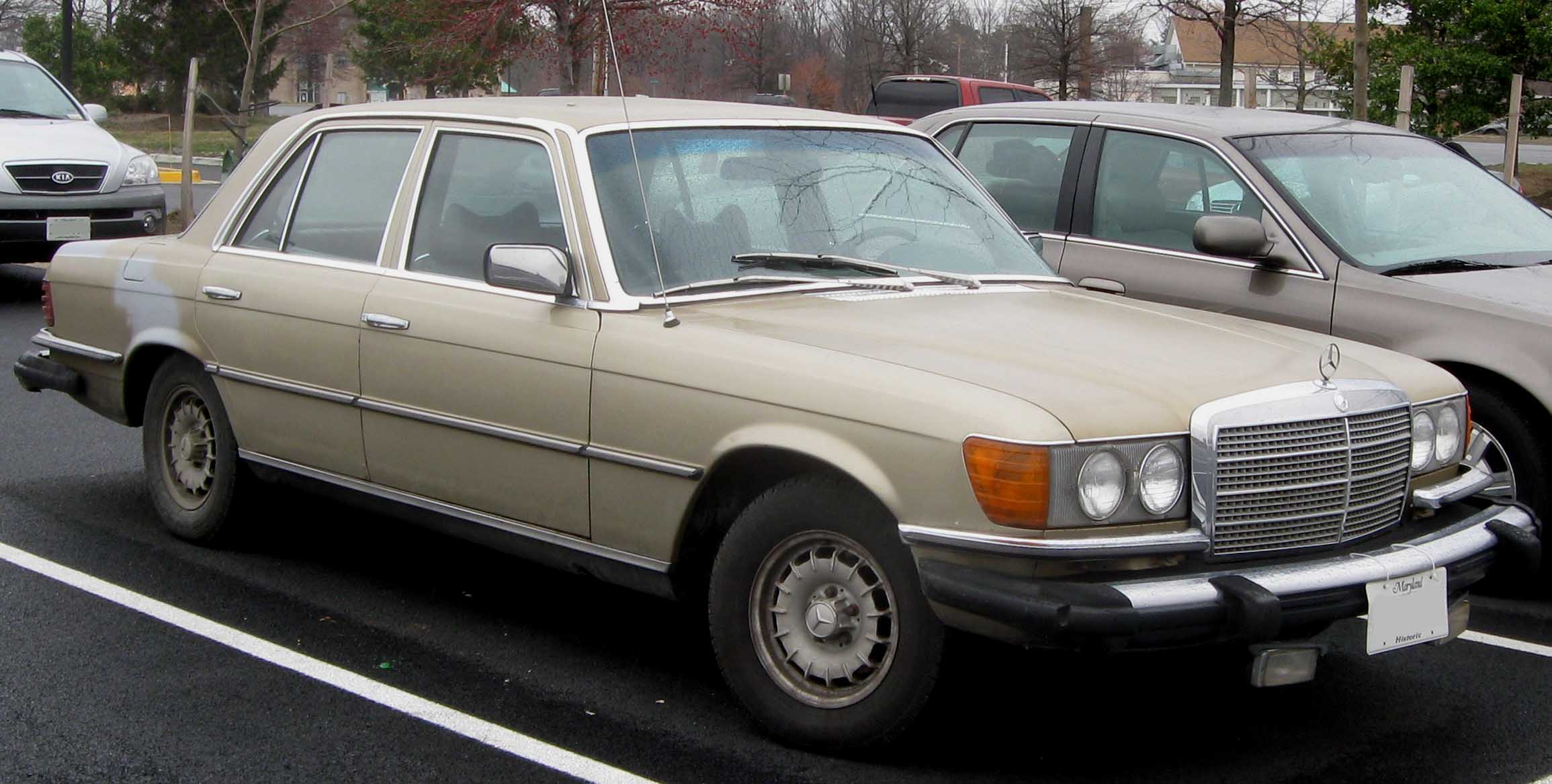 Mercedes-Benz 450 SE photographed in Waldorf, Maryland, USA.